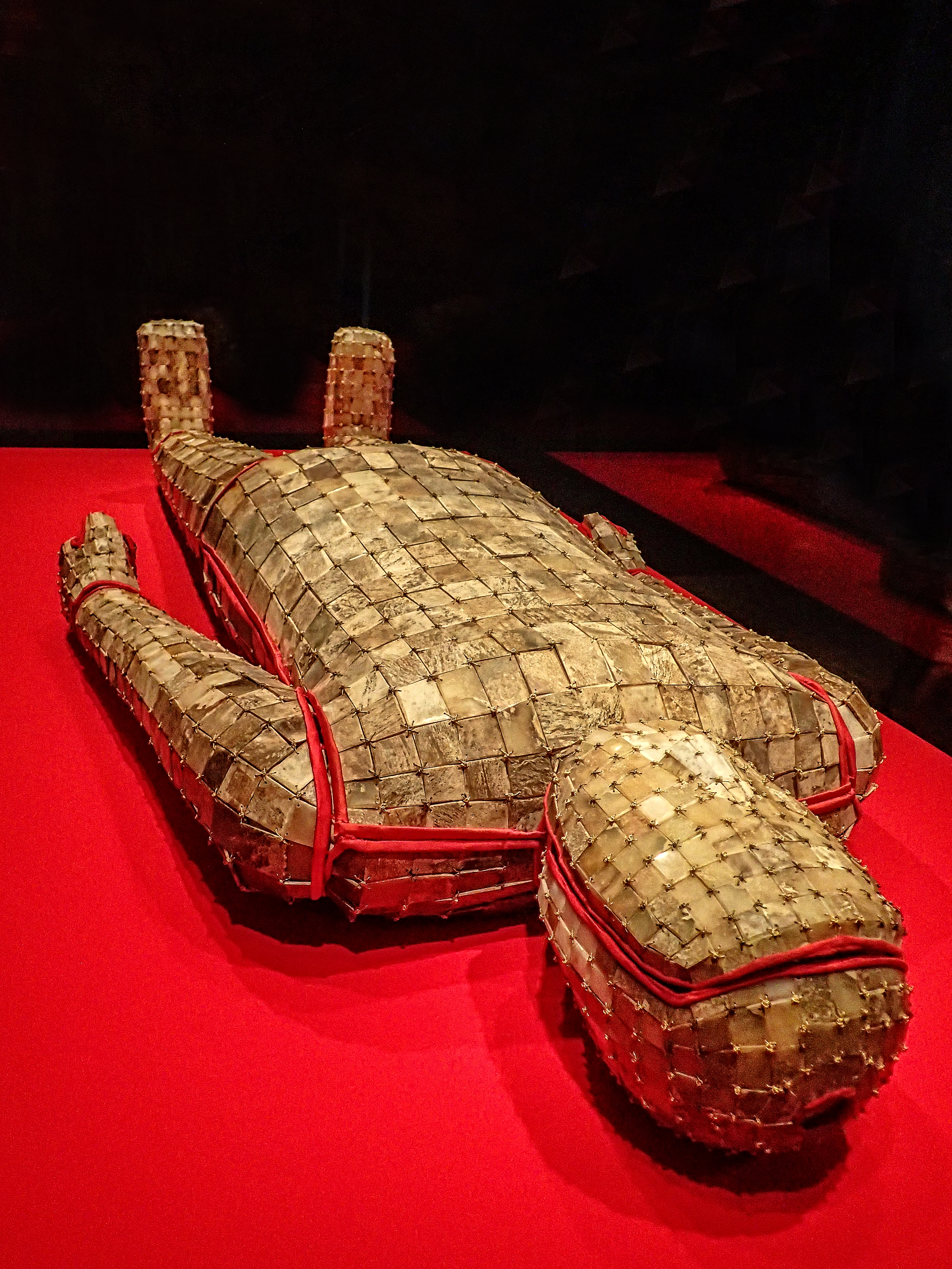 Jade burial suit of a queen of the Jiangdu kingdom buried in Tomb 2 Dayun Mountain Western Han 2nd century BCE